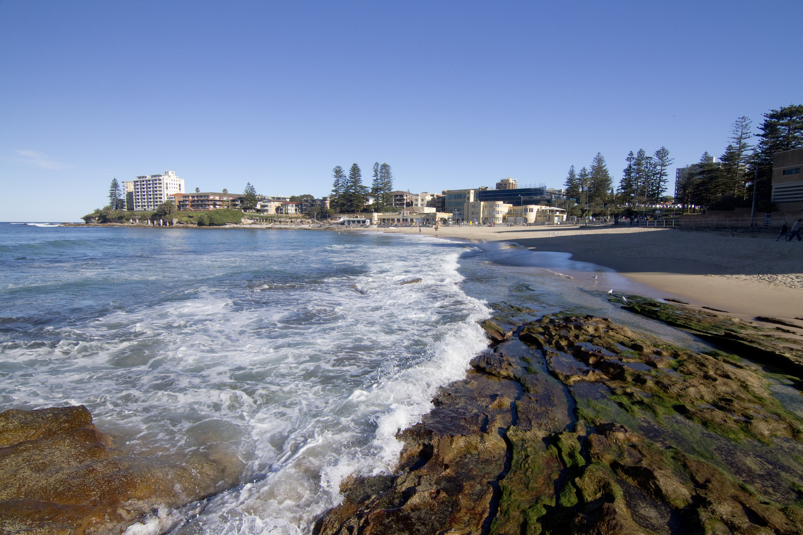 Cronulla beach, NSW